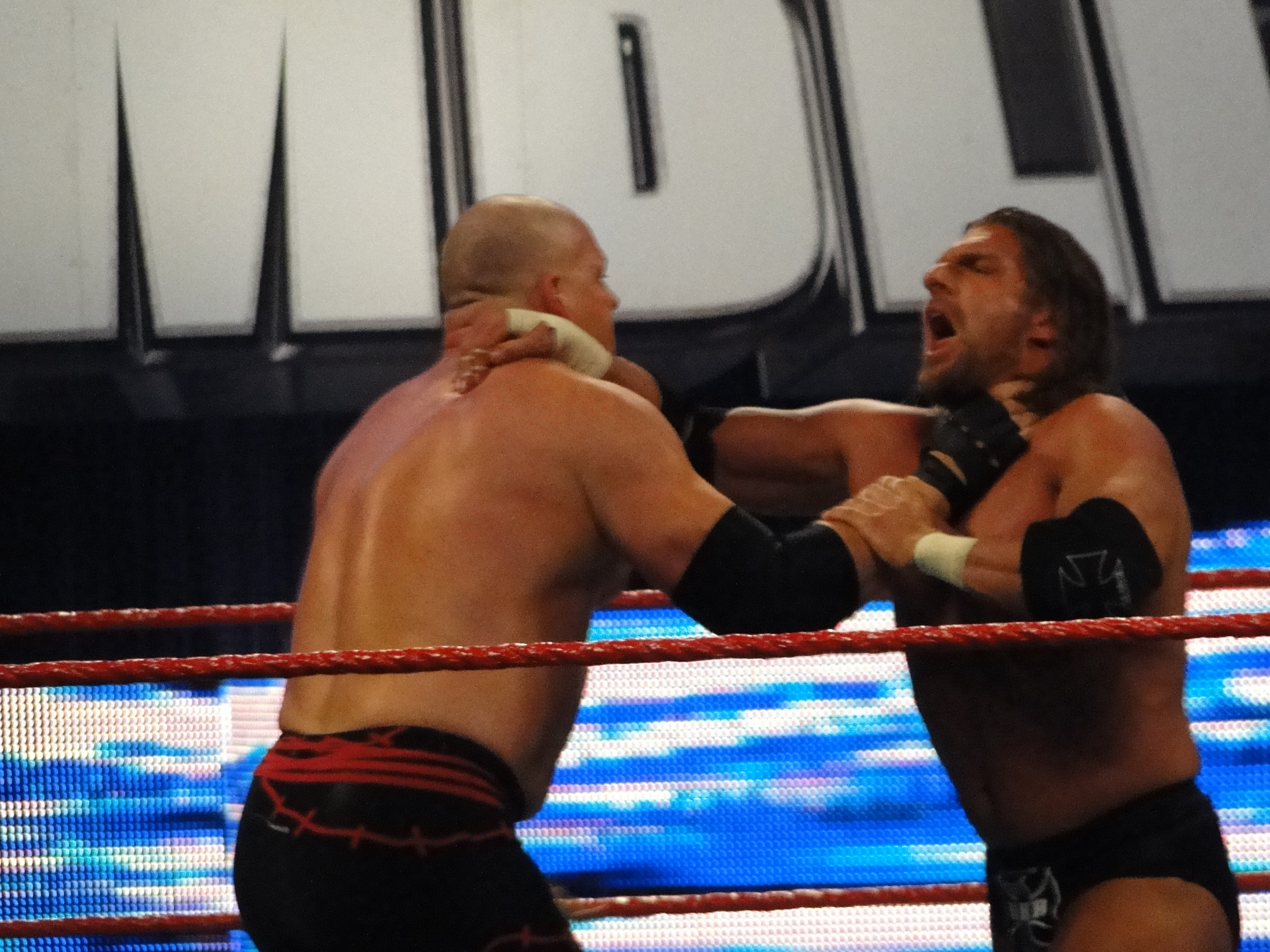 Kane & HHH at the battle royakl